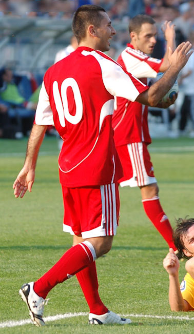 Manolo Jiménez, Andorran footballer, during the game Ukraine vs Andorra